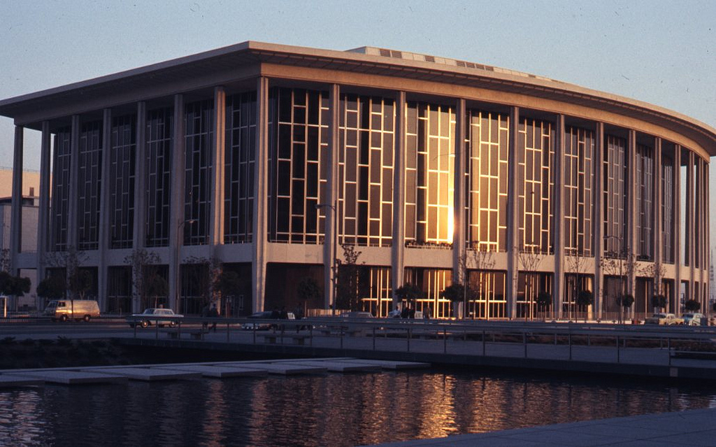 Dorothy Chandler Pavilion in 1965 — at the Los Angeles Music Center on Bunker Hill, in Downtown Los Angeles. View southeast across the DWP Building fountain.